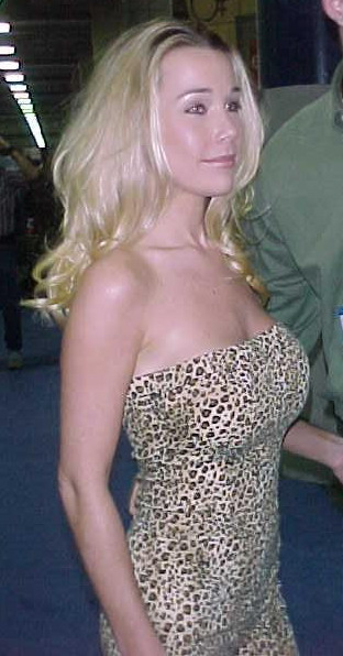 Kristi Myst, taken at the 2000 AVN Adult Entertainment Expo in Las Vegas, Nevada.